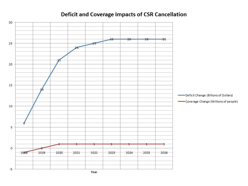 This graph models the deficit and coverage projections by the CBO of the impacts if cost sharing reduction payments for the Affordable Care Act were cancelled.